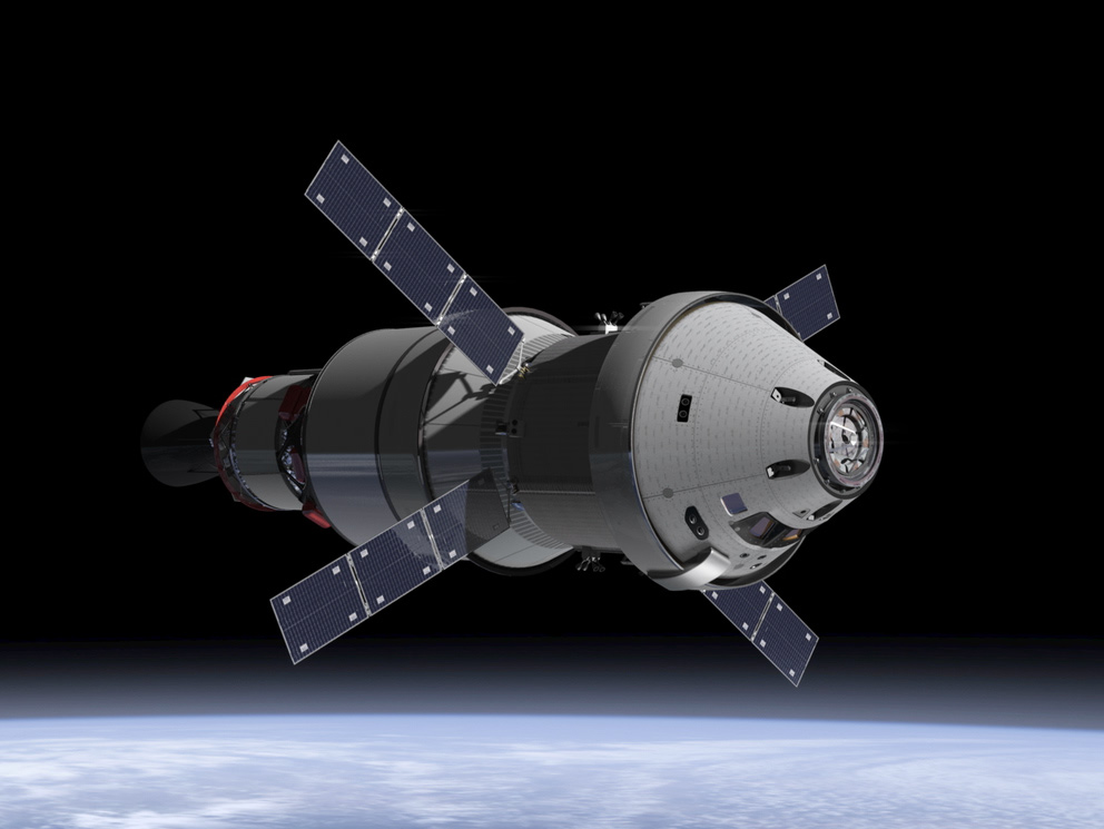 This artist's concept of the Orion Service Module was introduced today (16 January 2013). When the Orion spacecraft blasts off atop NASA’s Space Launch System rocket in 2017, attached will be the ESA-provided service module – the powerhouse that fuels and propels the Orion spacecraft. Orion will be the most advanced spacecraft ever designed and carry astronauts farther into space than ever before. It will sustain astronauts during space travel and provide safe re-entry from deep space and emergency abort capability. Orion will be launched by NASA's Space Launch System (SLS), a heavy-lift rocket that will provide an entirely new capability for human exploration beyond low Earth orbit. Designed to be flexible for launching spacecraft for crew and cargo missions, SLS will enable new missions of exploration and expand human presence across the solar system. The service module of the Orion spacecraft will provide support to the crew module from launch through separation prior to atmospheric re-entry.